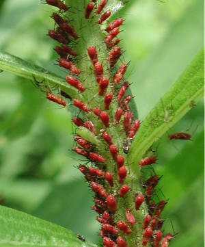 Uroleucon nigrotuberculatum on unidentified plant